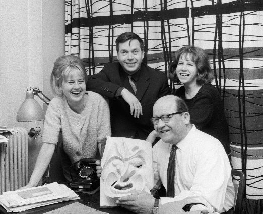 Photograph of the Finnish actor/director Ossi Elstelä (1902–1969) with his family: daughter Riitta Elstelä (1940–), son Esko Elstelä (1931–2007) and daughter Kristiina Elstelä (1943–2016).